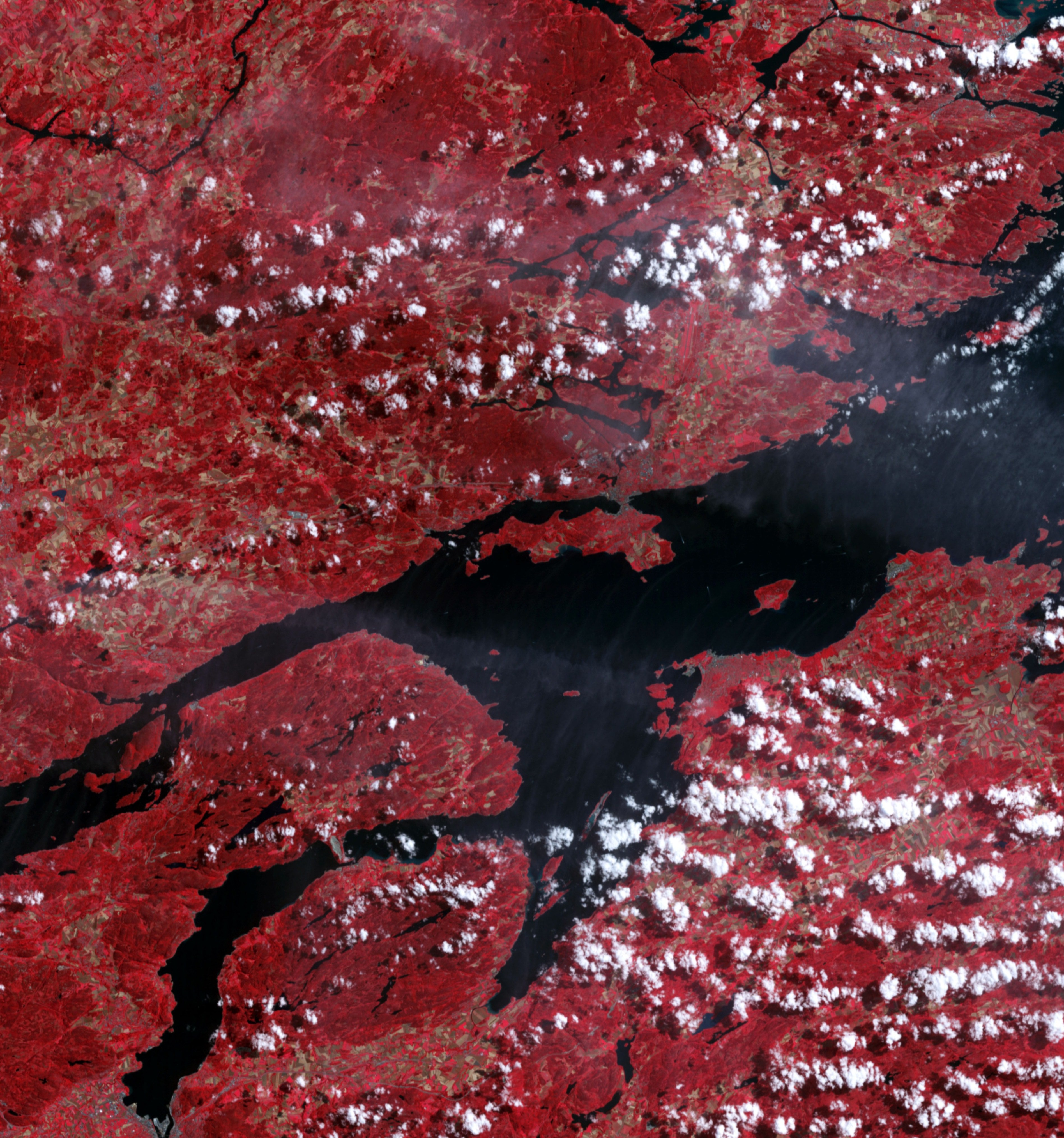 False-colour image of Oslofjorden. Vegetation is red, urbanized areas are blue-gray, water is navy, and clouds are white. This image has been rotated and north is to the lower left.